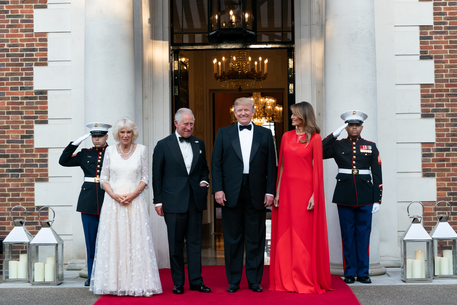 President Donald J. Trump and First Lady Melania Trump greet the Prince of Wales and the Duchess of Cornwall prior to attending a reciprocal dinner Tuesday, June 4, 2019, at Winfield House in London. (Official White House Photo by Andrea Hanks)